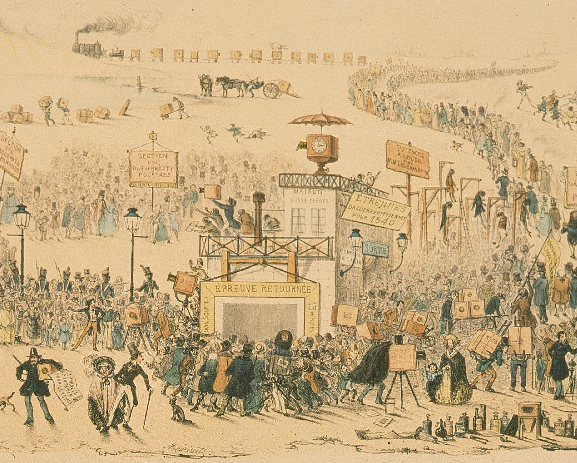 "French cartoon about the rush to try photography after Louis Jacques Mandé Daguerre revealed his process in 1839. Print shows long lines of people waiting to be photographed and others eager to support the craze by providing training and a vast array of photographic equipment, provided by the Maison Susse Frères. Several men hanging from gallows, "Potences à louer pour MM les graveurs," represent the death of the art of copying the nature (realism) in the birth of photography. A balloon hovers in the air with a large camera as its basket."